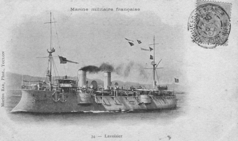 French cuiser Lavoisier (1893-1920)